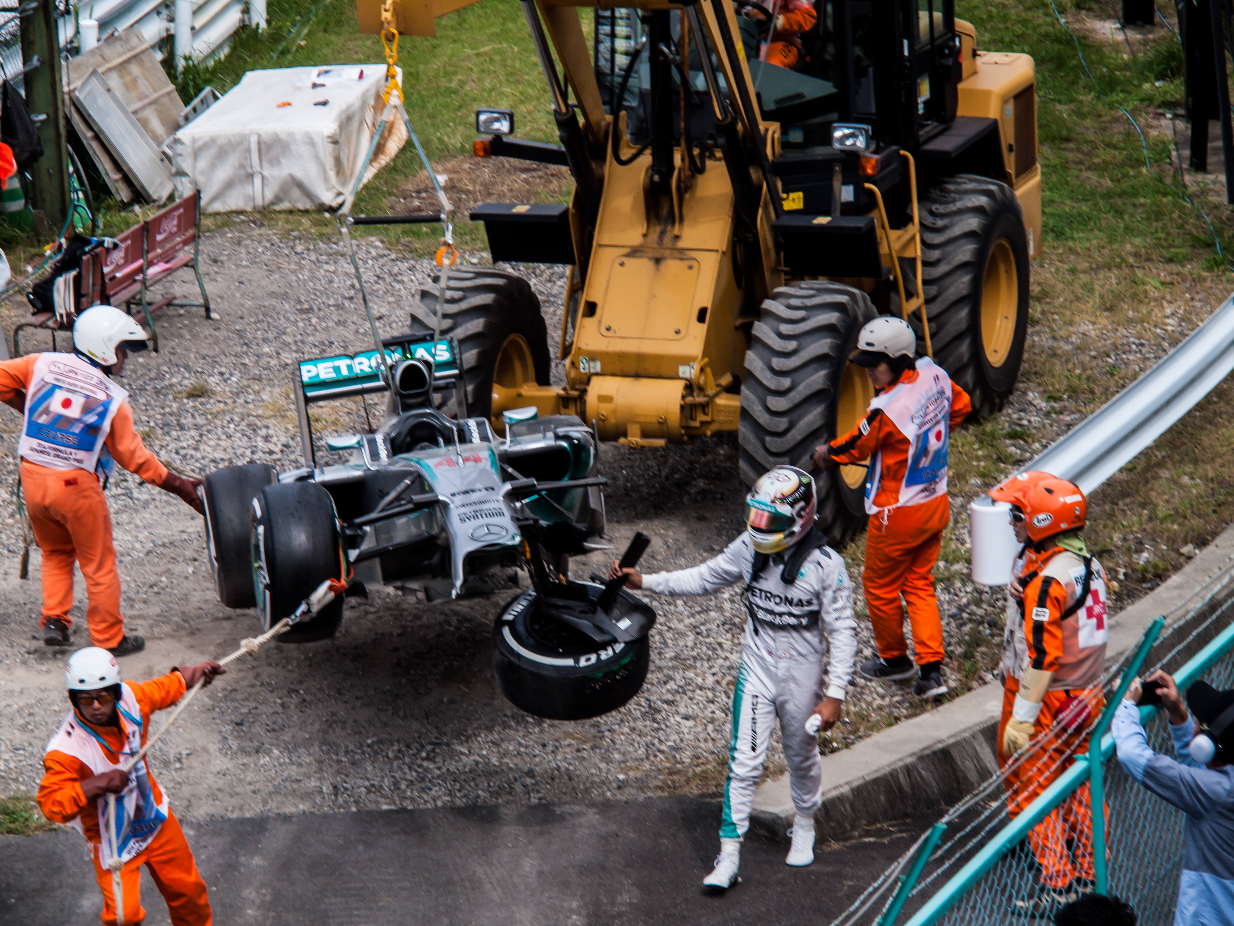 Lewis Hamilton after crash during FP3 at the 2014 Japanese Grand Prix